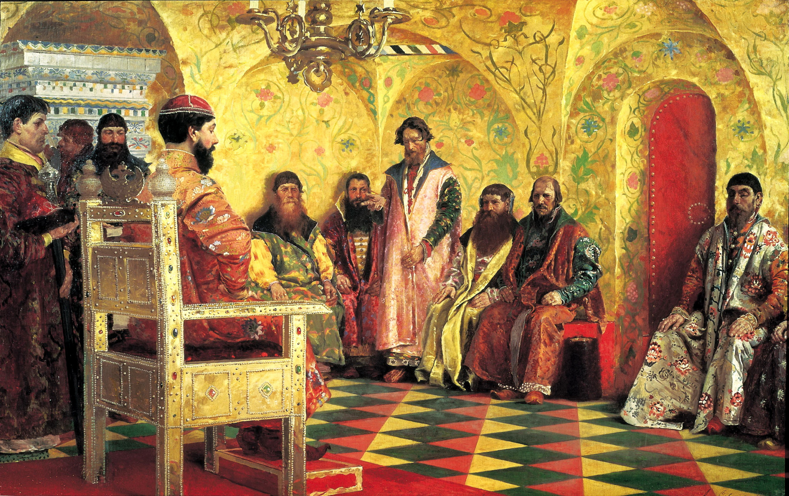 Tsar Mikhail Feodorovich at the session of the Boyar Duma (1893). Painting by Andrey Petrovich Ryabushkin (1862-1904), now in the Tretyakov Gallery.